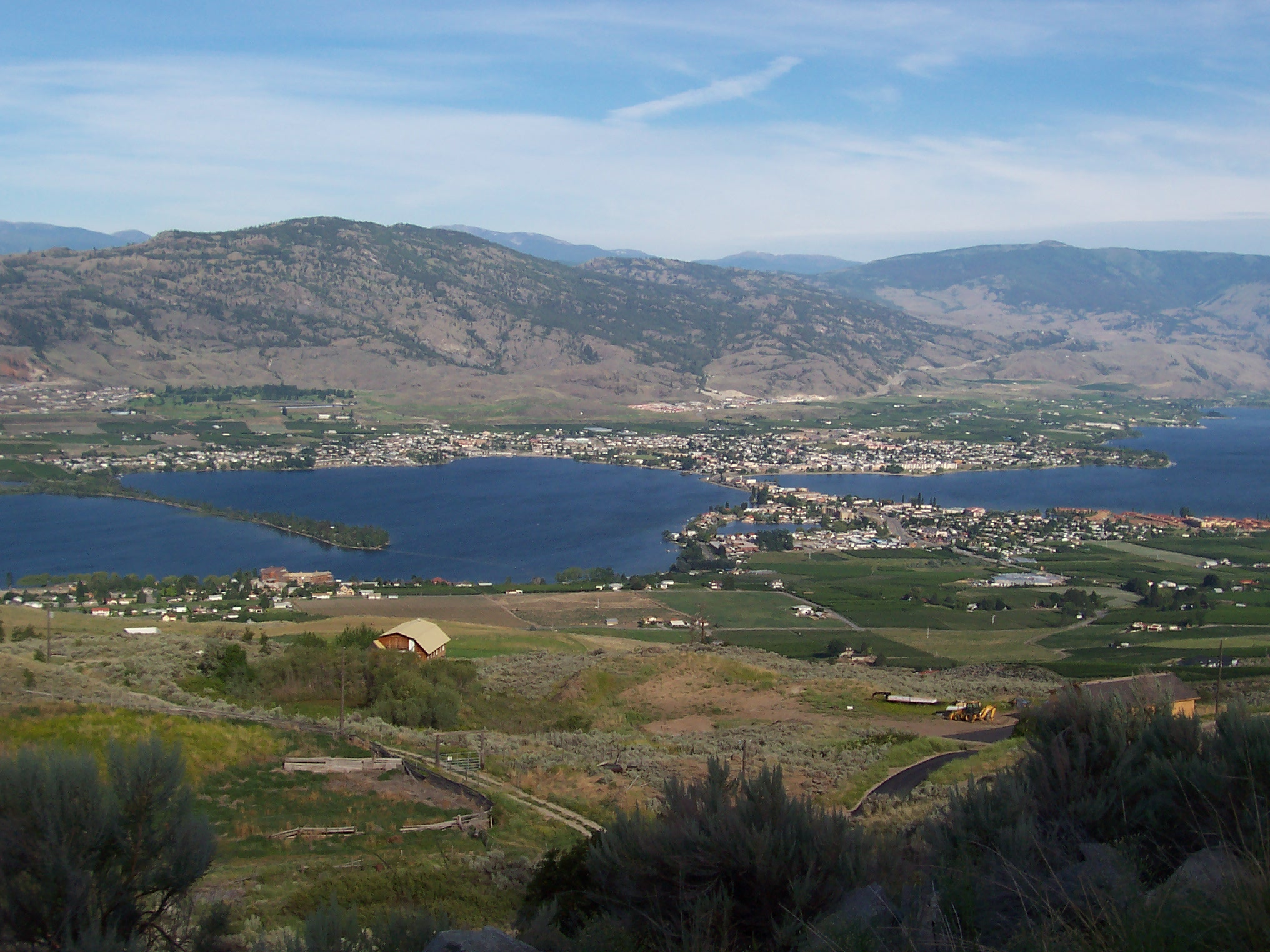 This picture of Osoyoos in BC, Canada, was taken from Highway 3, east of the town. Taken by Samuel Boisvert.